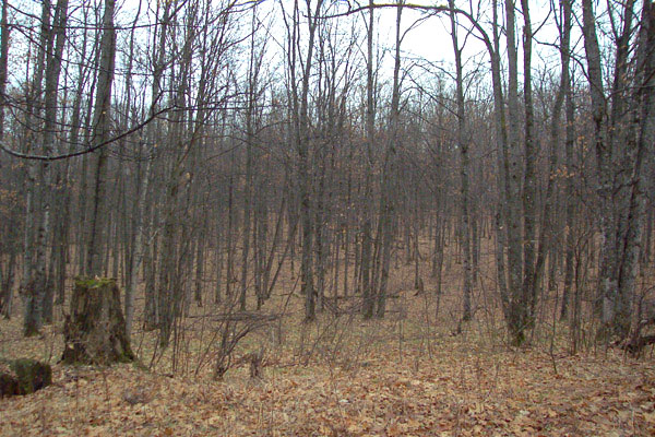 Deciduous forest in southern Michigan